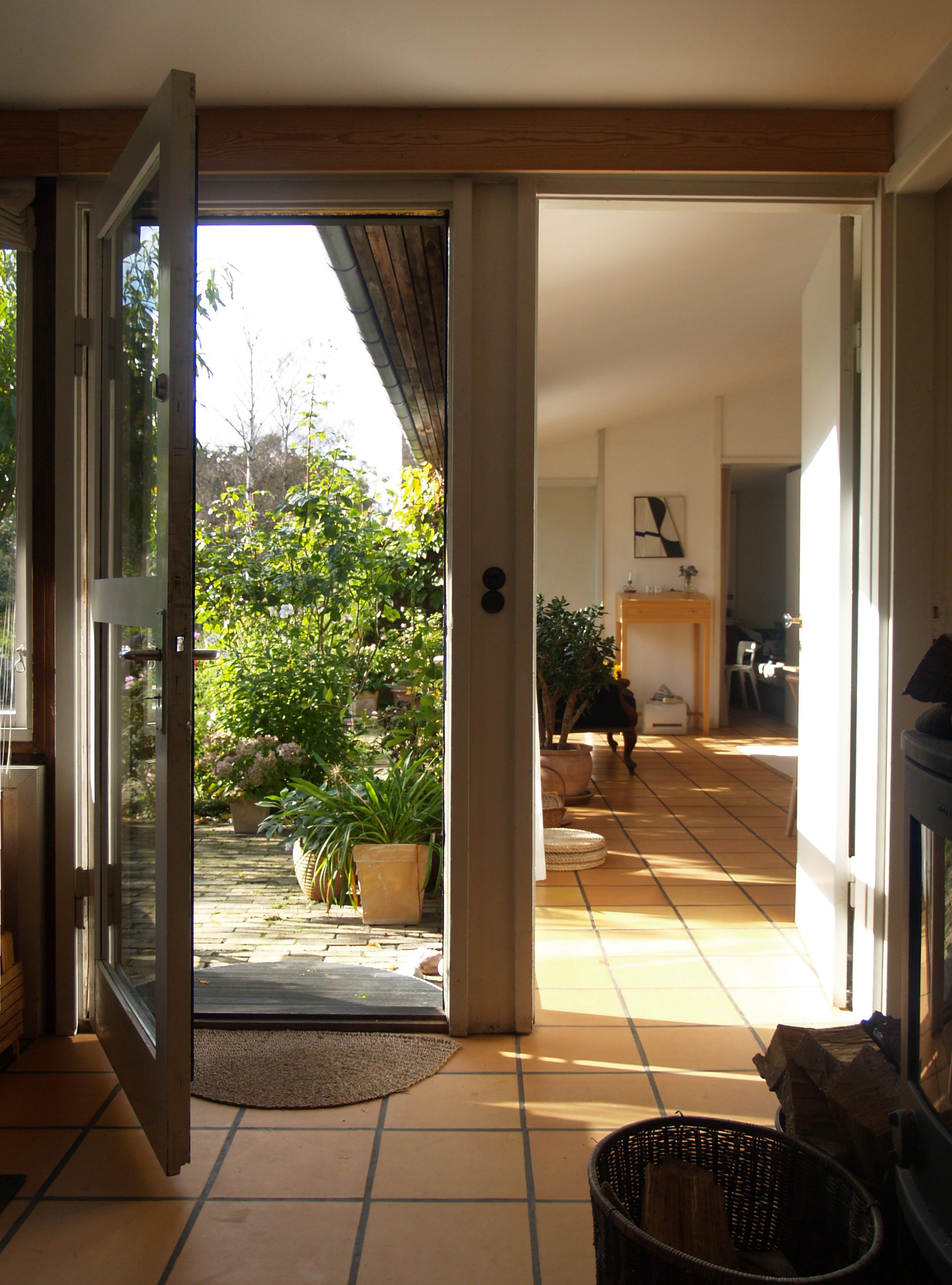 Kingo Houses by Jørn Utzon